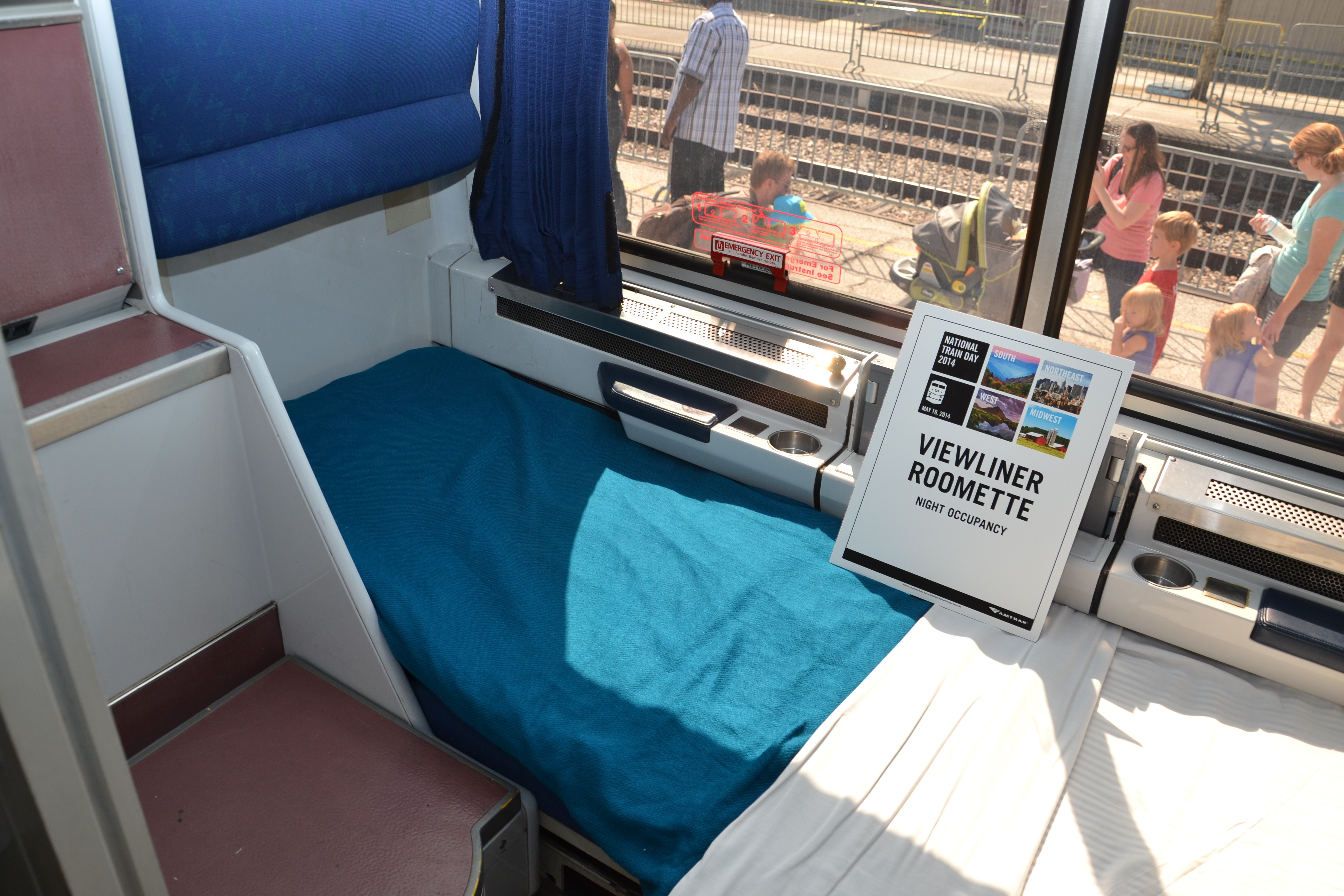 Viewliner Roomette - National Train Day is held each year to introduce the general public to trains and train history. This year it also was a way to celebrate the 75th anniversary of streamline passenger service to Florida so what better place to hold it than Tampa's historic Union Station. Amtrak still uses Tampa Union Station to host the Silver Star, which carries passengers between New York City and Miami.